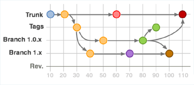 Method proposed for branching out versions in SVN